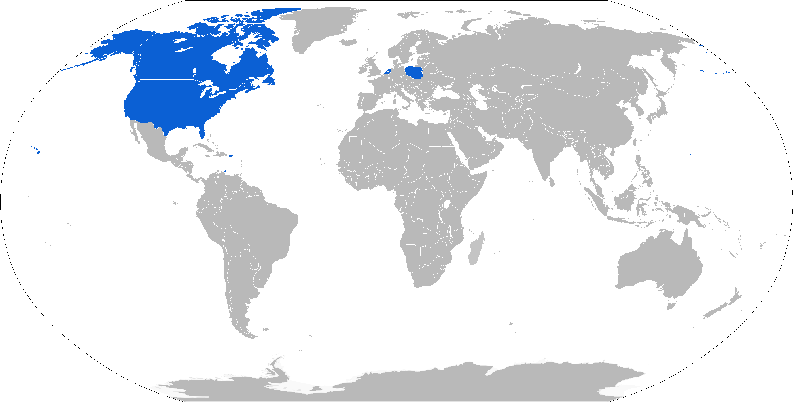 Map with RQ-21 Blackjack operators in blue